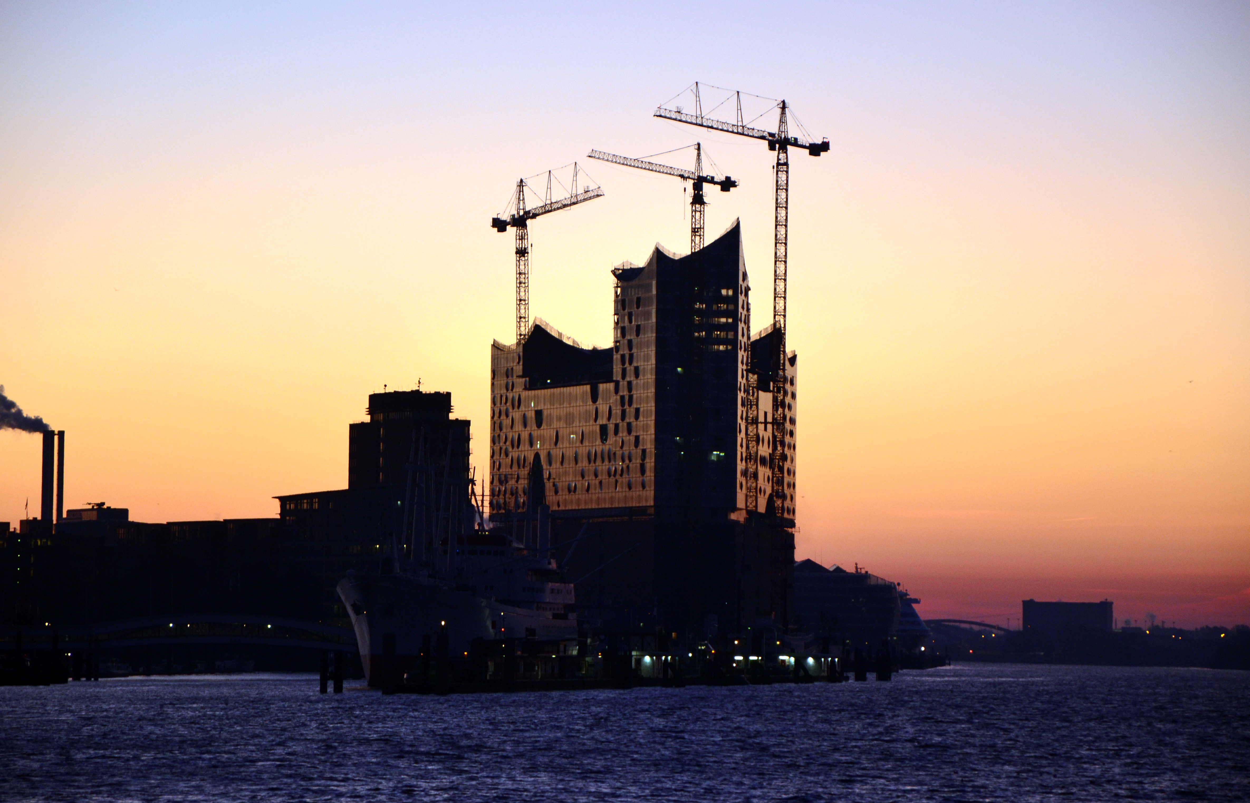 sunrise port of hamburg; Cap San Diego and Elbphilharmonie